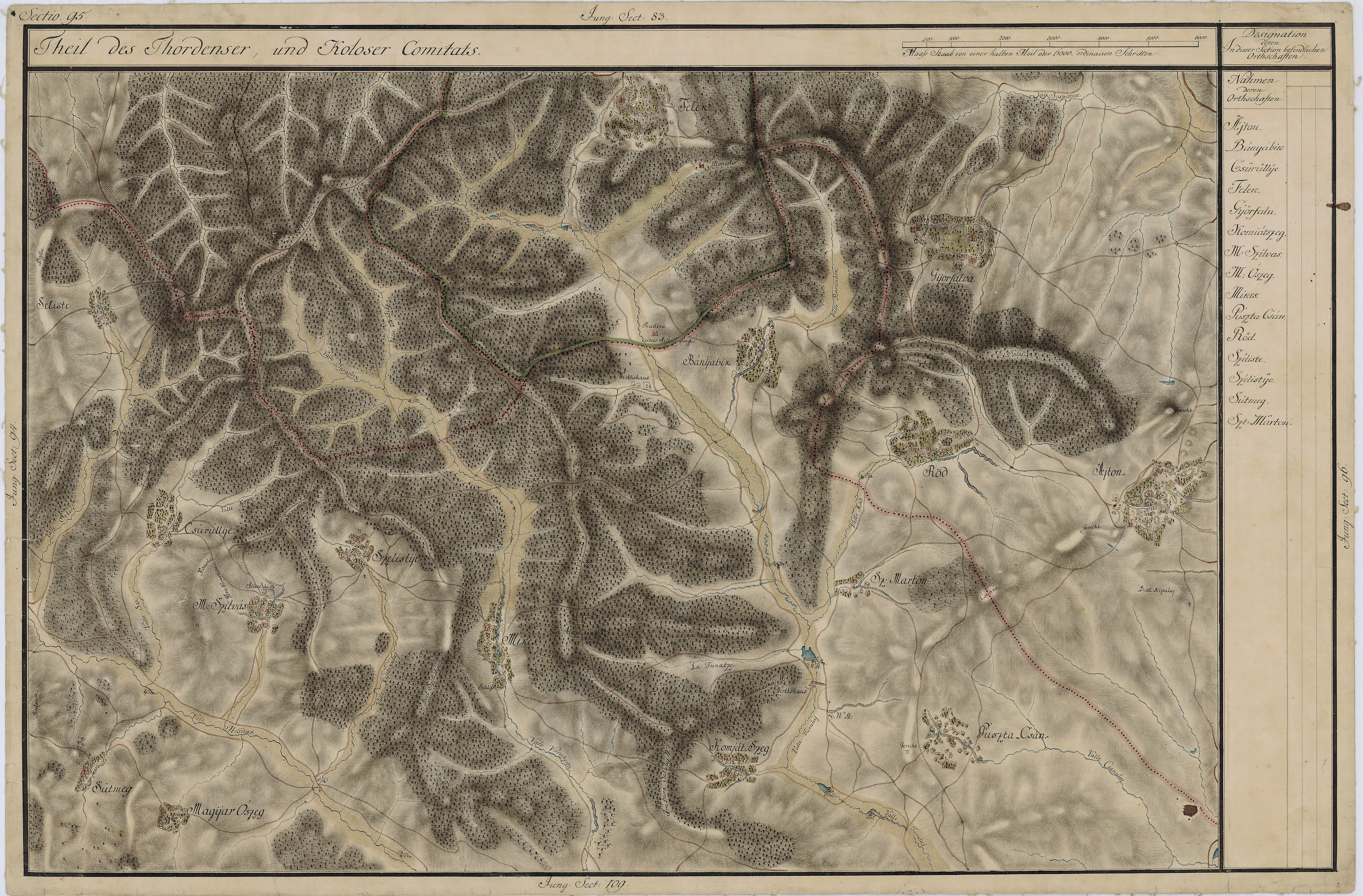 Grand Duchy of Transylvania, 1769-1773. Josephinische Landaufnahme pg.095